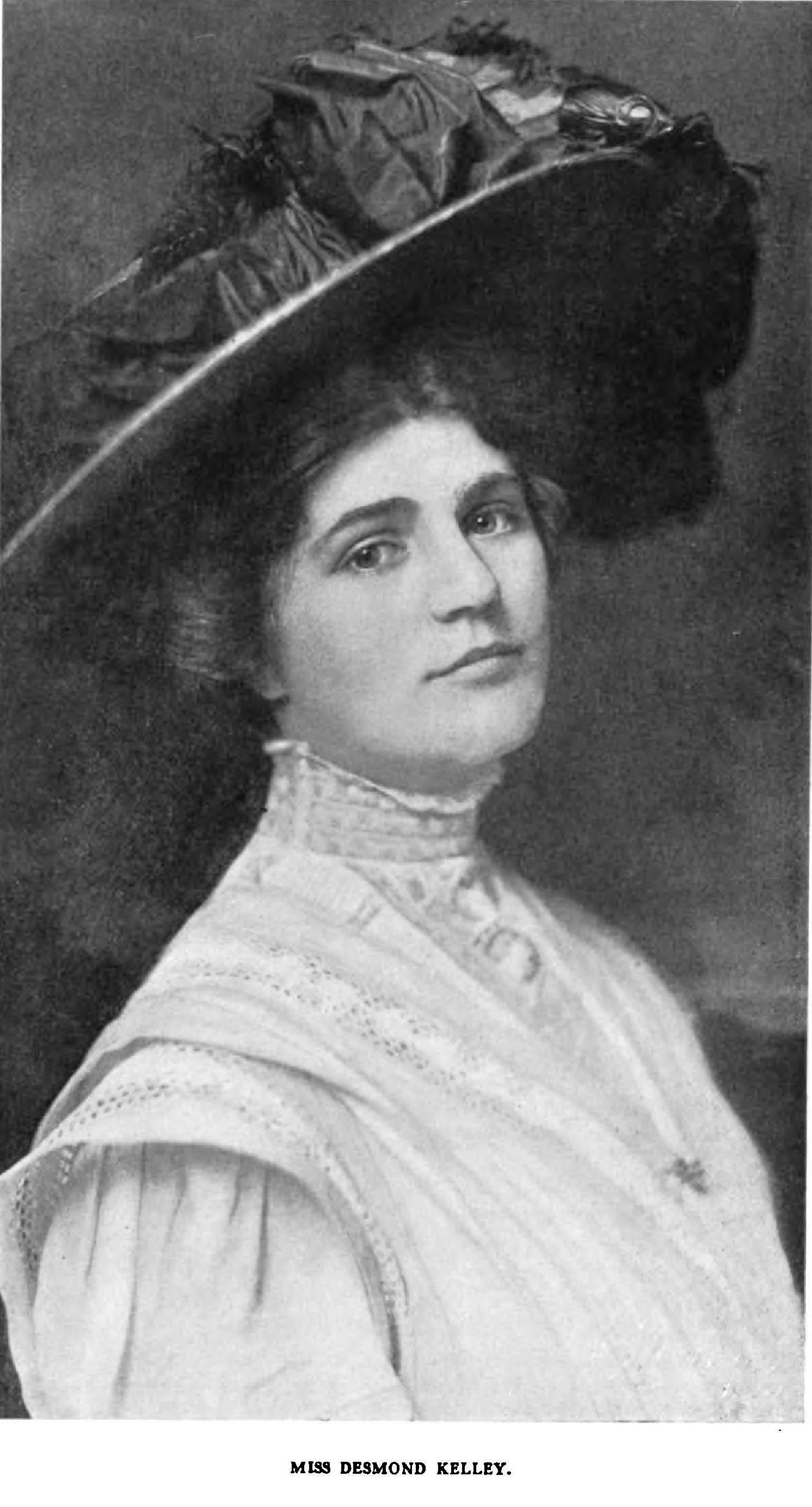 Desmond Kelley in 1909 in The Richest Girl